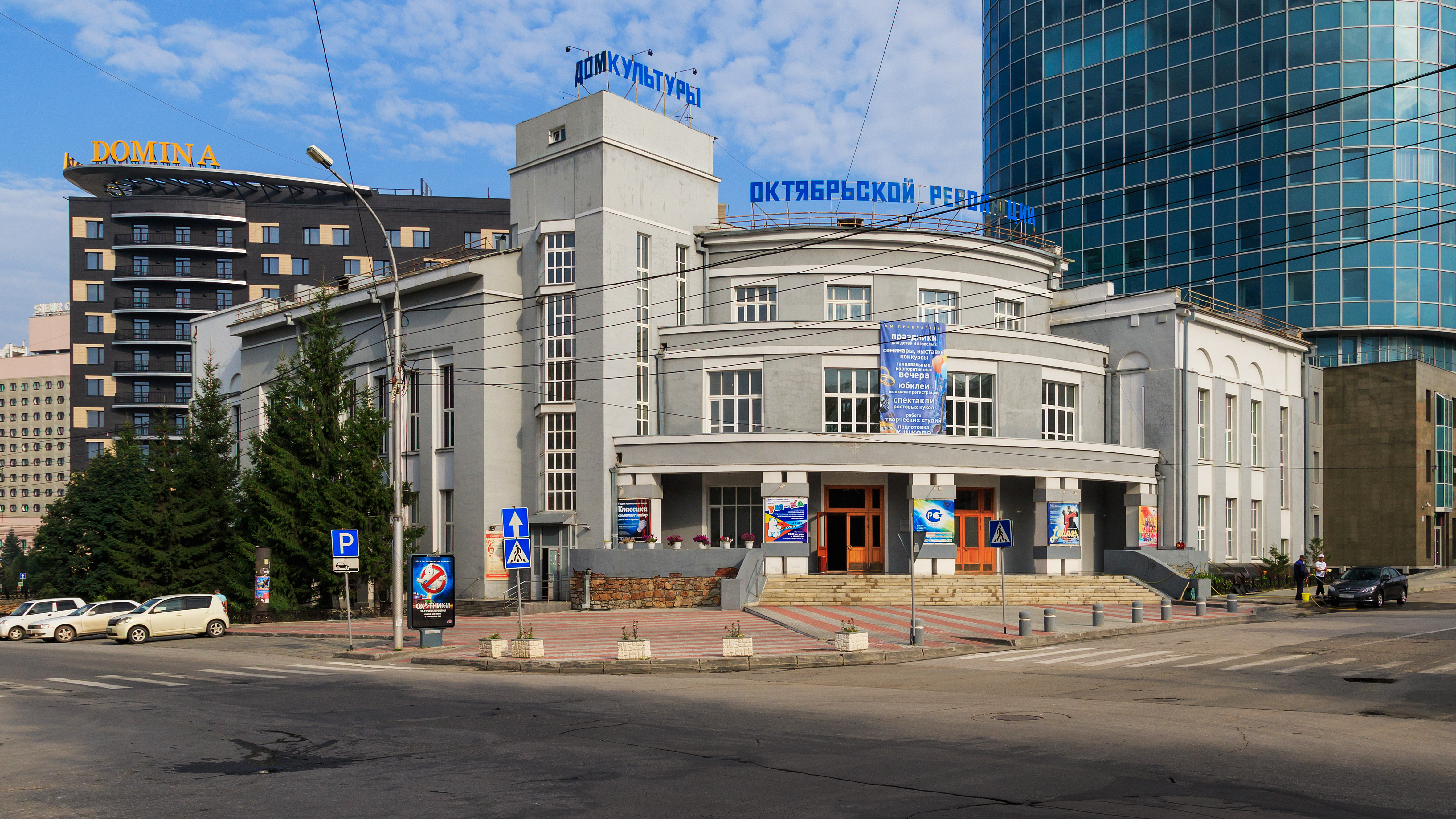 The October Revolution House of Culture (listed) at Lenina Street in Novosibirsk, Russia